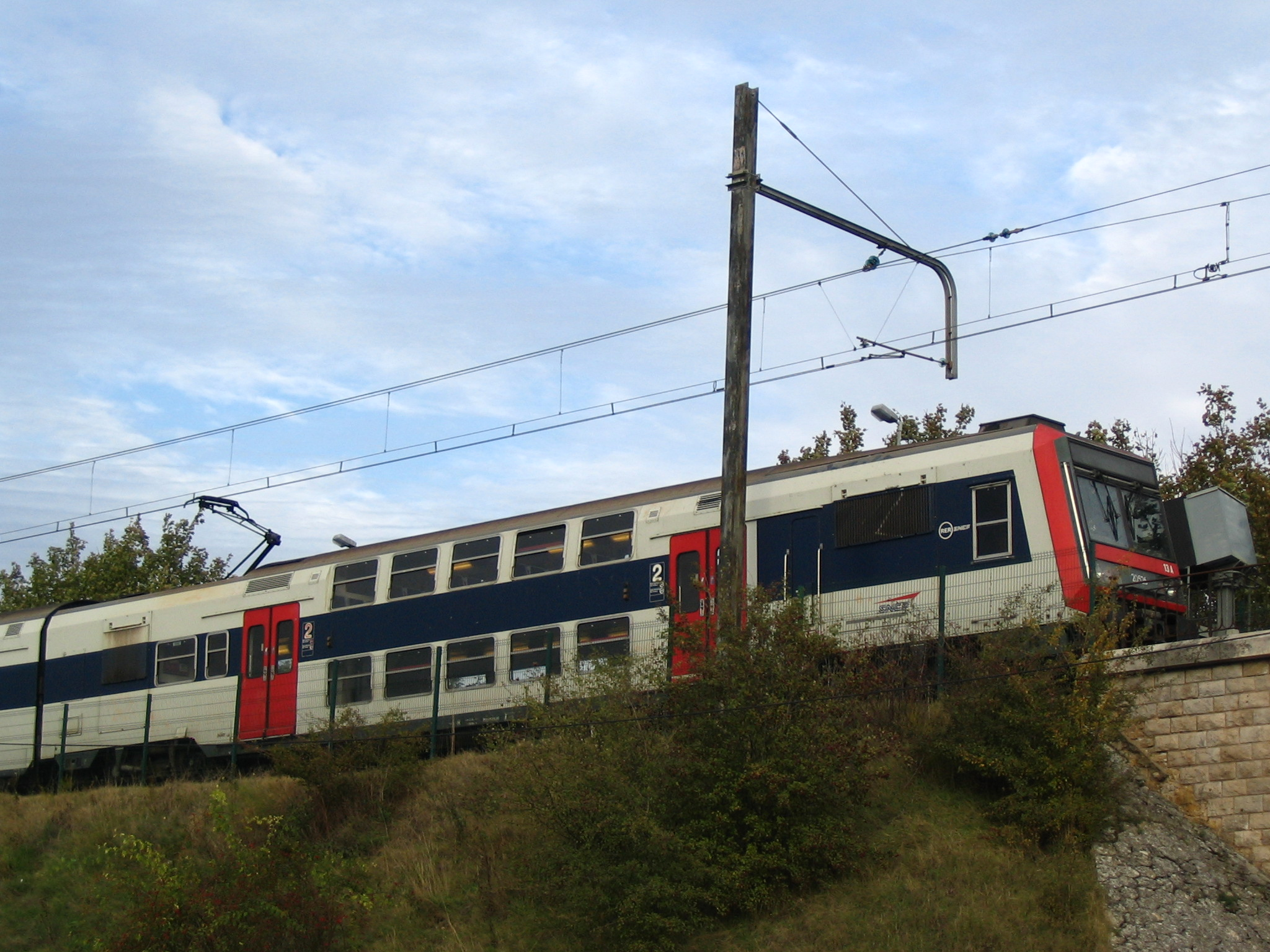 A train (type Z2N) of RER line C in Saint-Martin-d'Étampes station